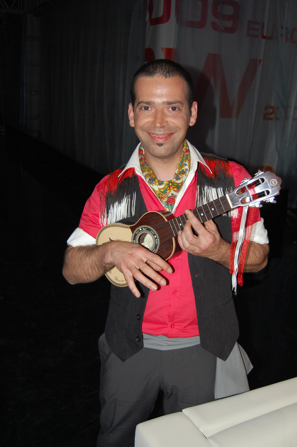 Flor-de-Lis